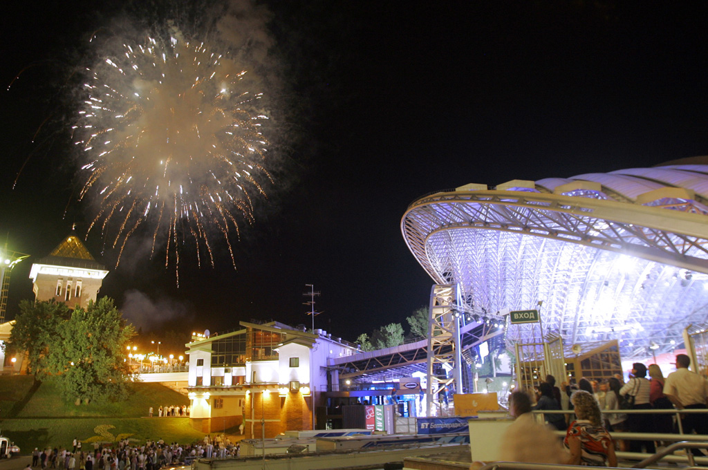 “Closing the 18th International Slavic Bazaar art festival in Vitebsk”. Closing the 18th International Slavic Bazaar art festival in Vitebsk